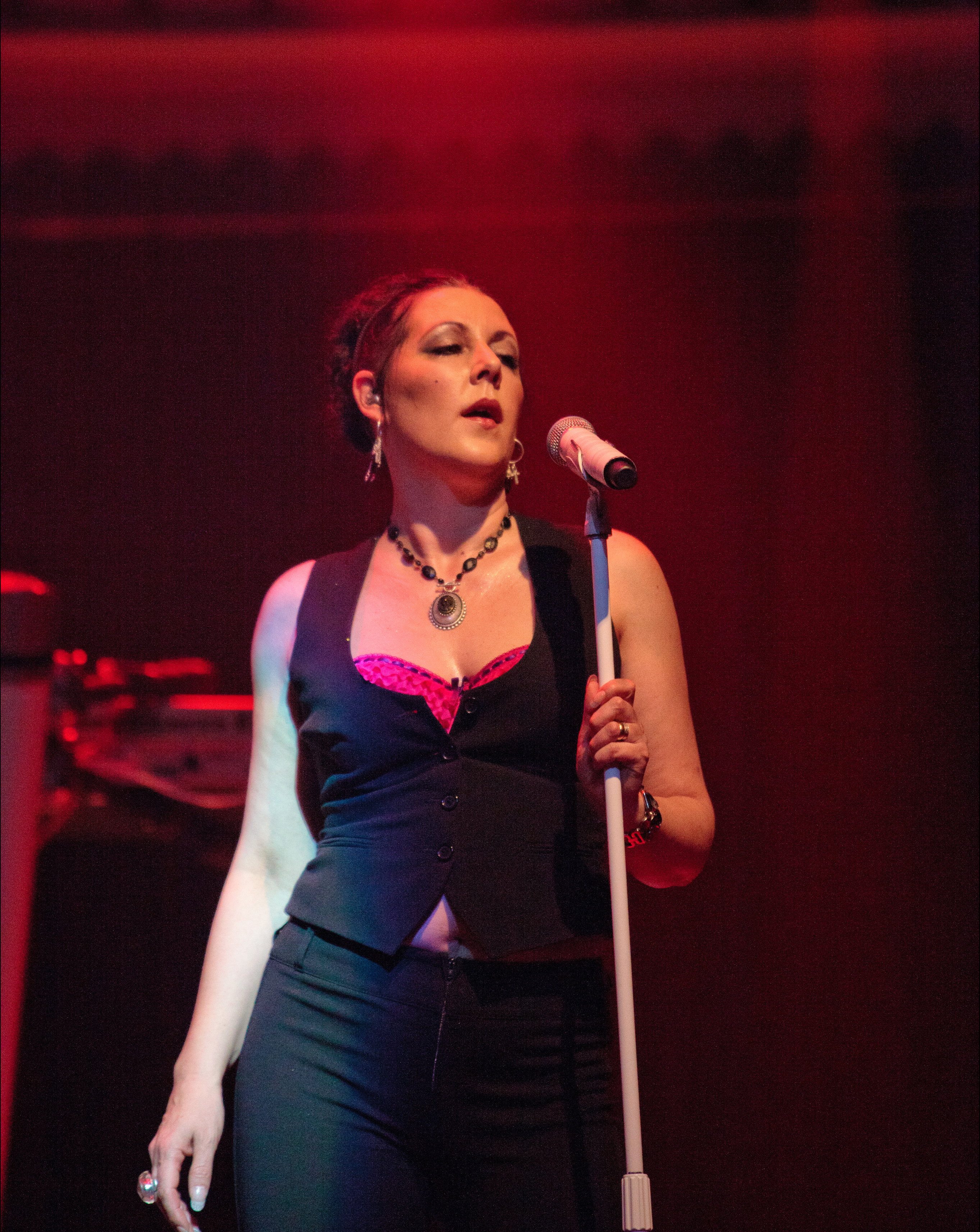 Joanne Catherall singing on stage with The Human League at Paradiso, Amsterdam, Netherlands.